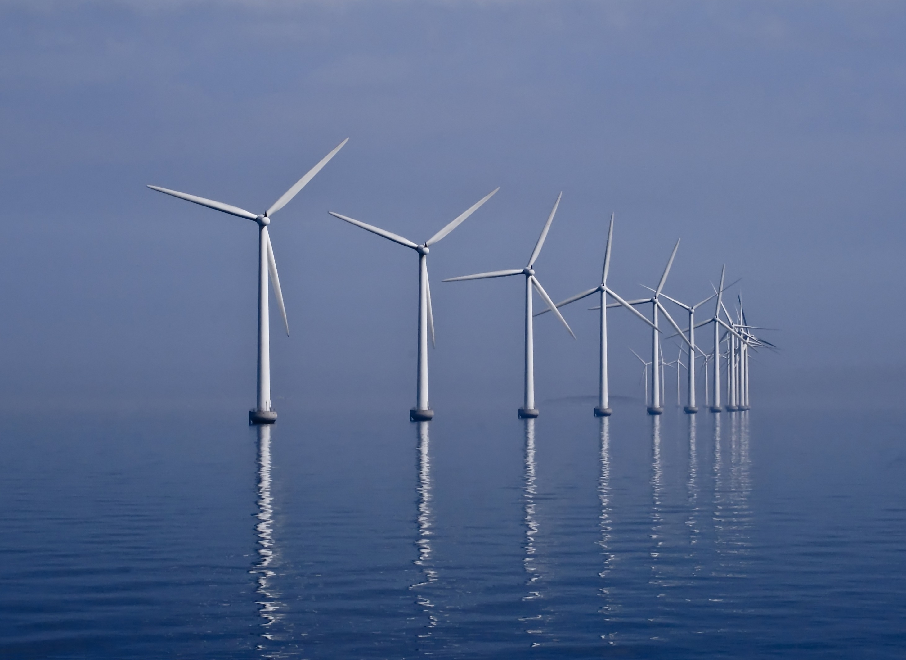 Middelgrunden offshore wind farm (40 MW) observed in Øresund